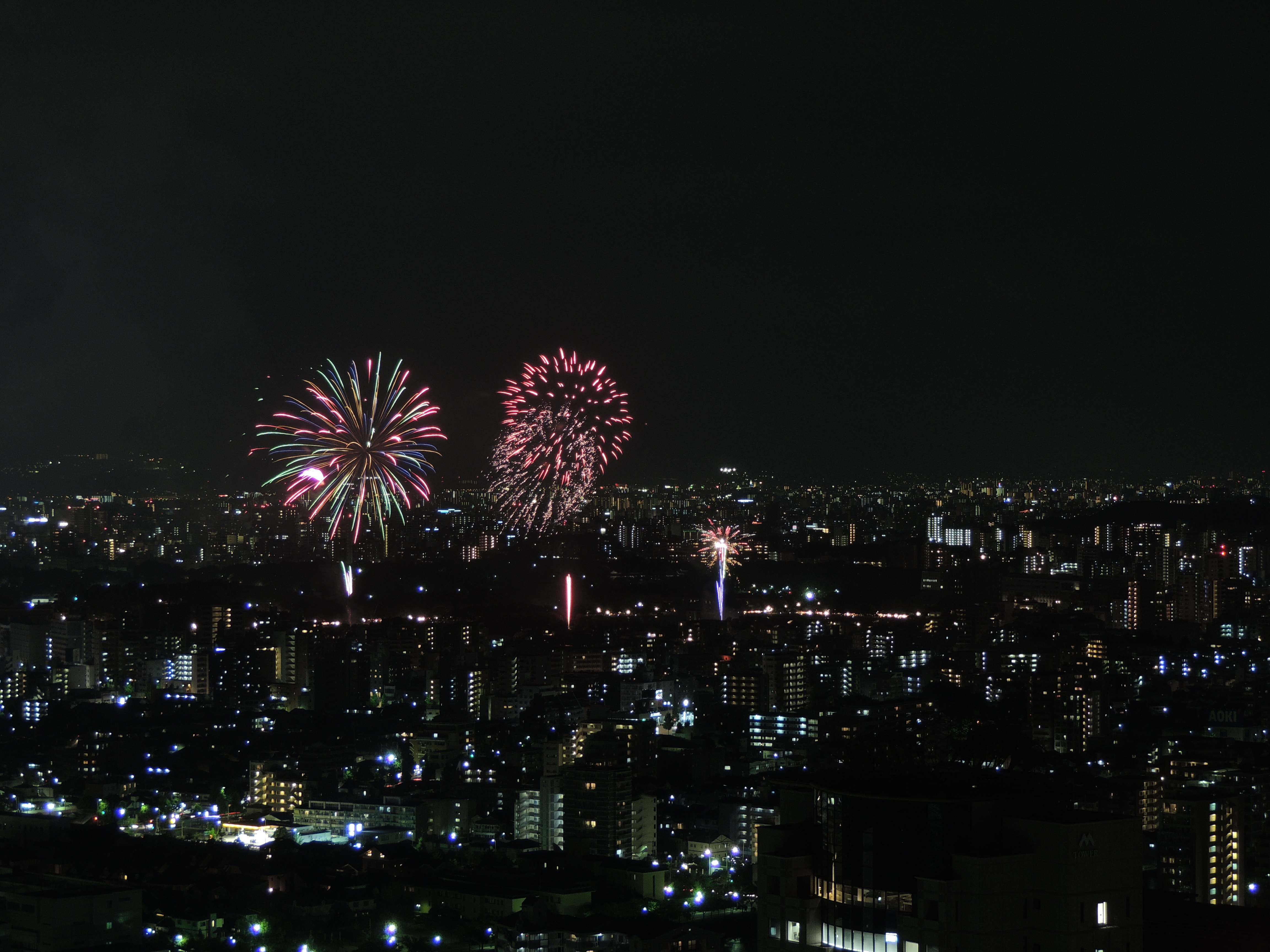 Nishinippon（=Westjapan）Ohori Fireworks Festival from Fukuoka Tower.